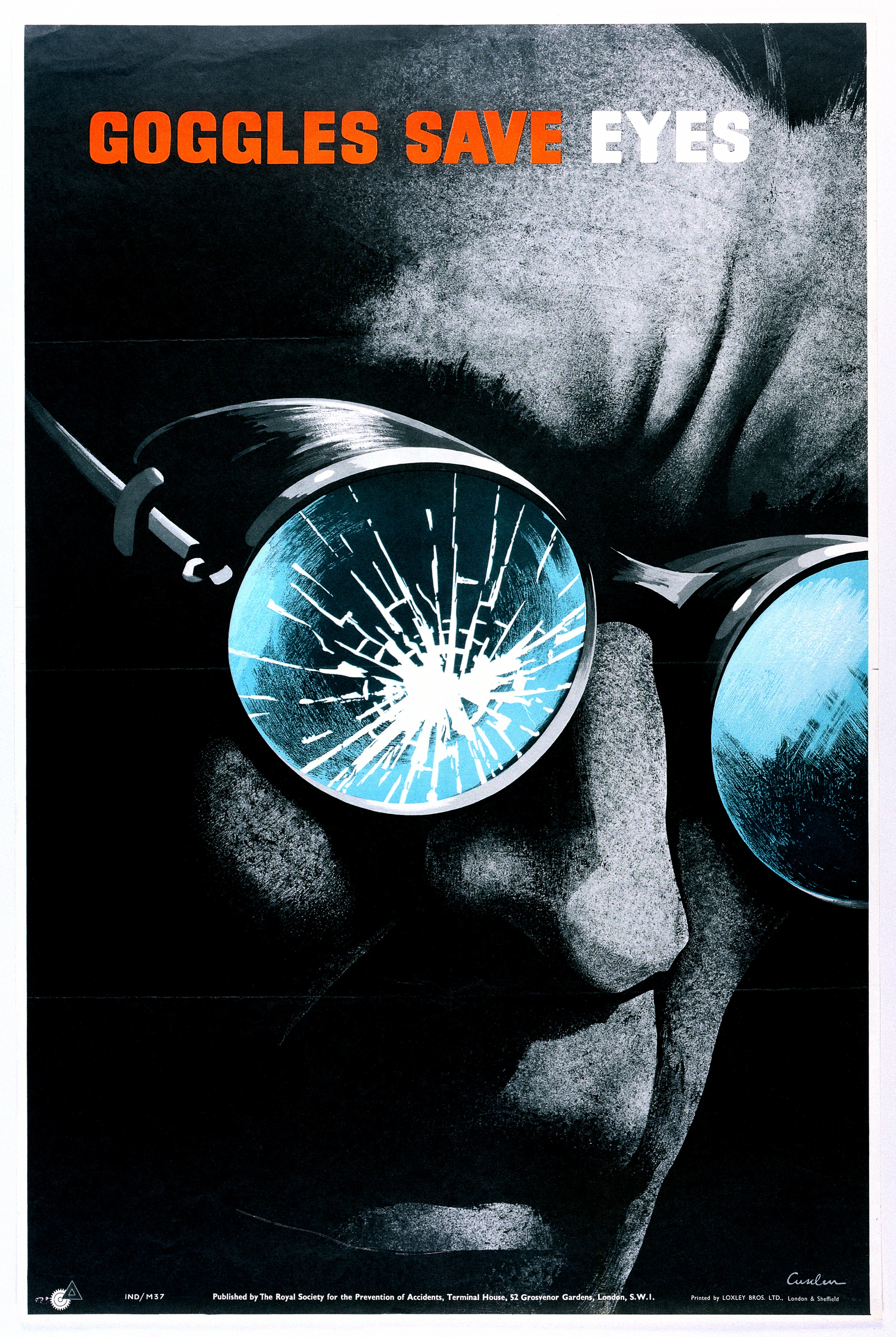 Goggles save eyes. The face of a man wearing goggles, his right goggle cracked. Colour lithograph after L. Cusden. Iconographic Collections Keywords: Health and Safety; Leonard. Cusden; L. Cusden